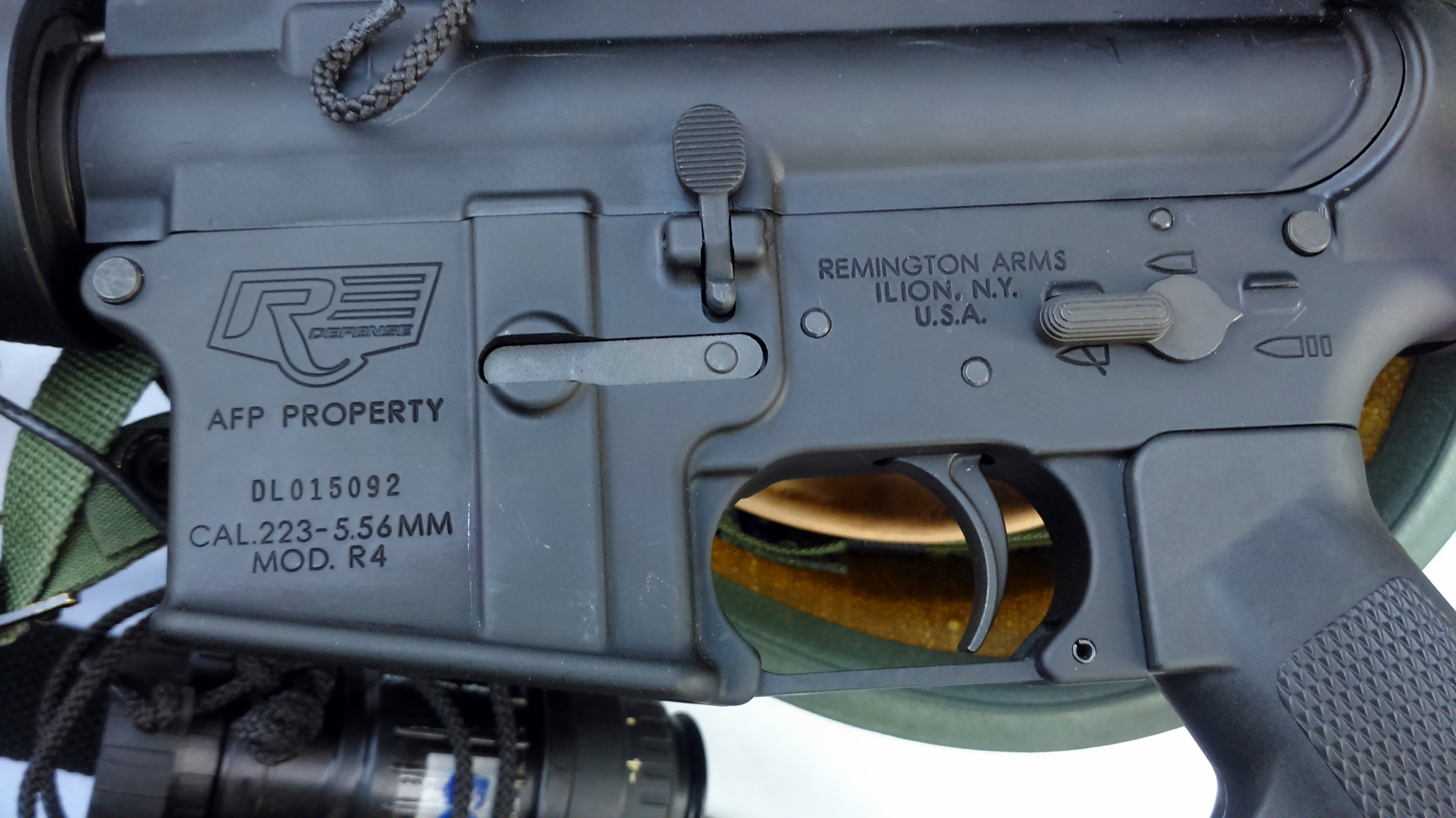 Markings of a Philippine Army Remington R4 Rifle